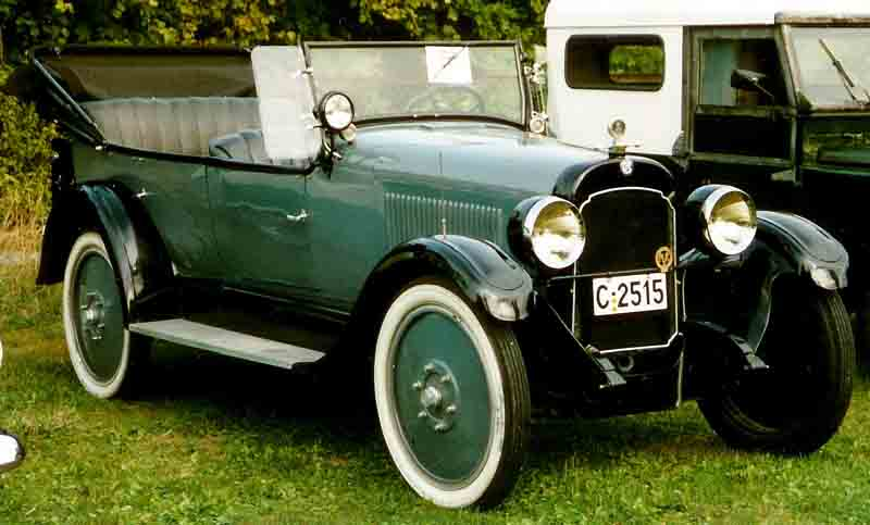 Chalmers Touring 1922